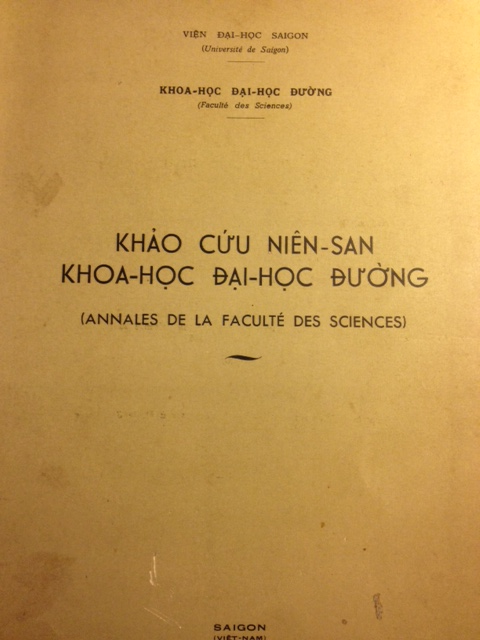 Annals of the Faculty of Science, University of SaigonTiếng Việt: Khảo-cứu Niên-san Khoa-học Đại-học Đường